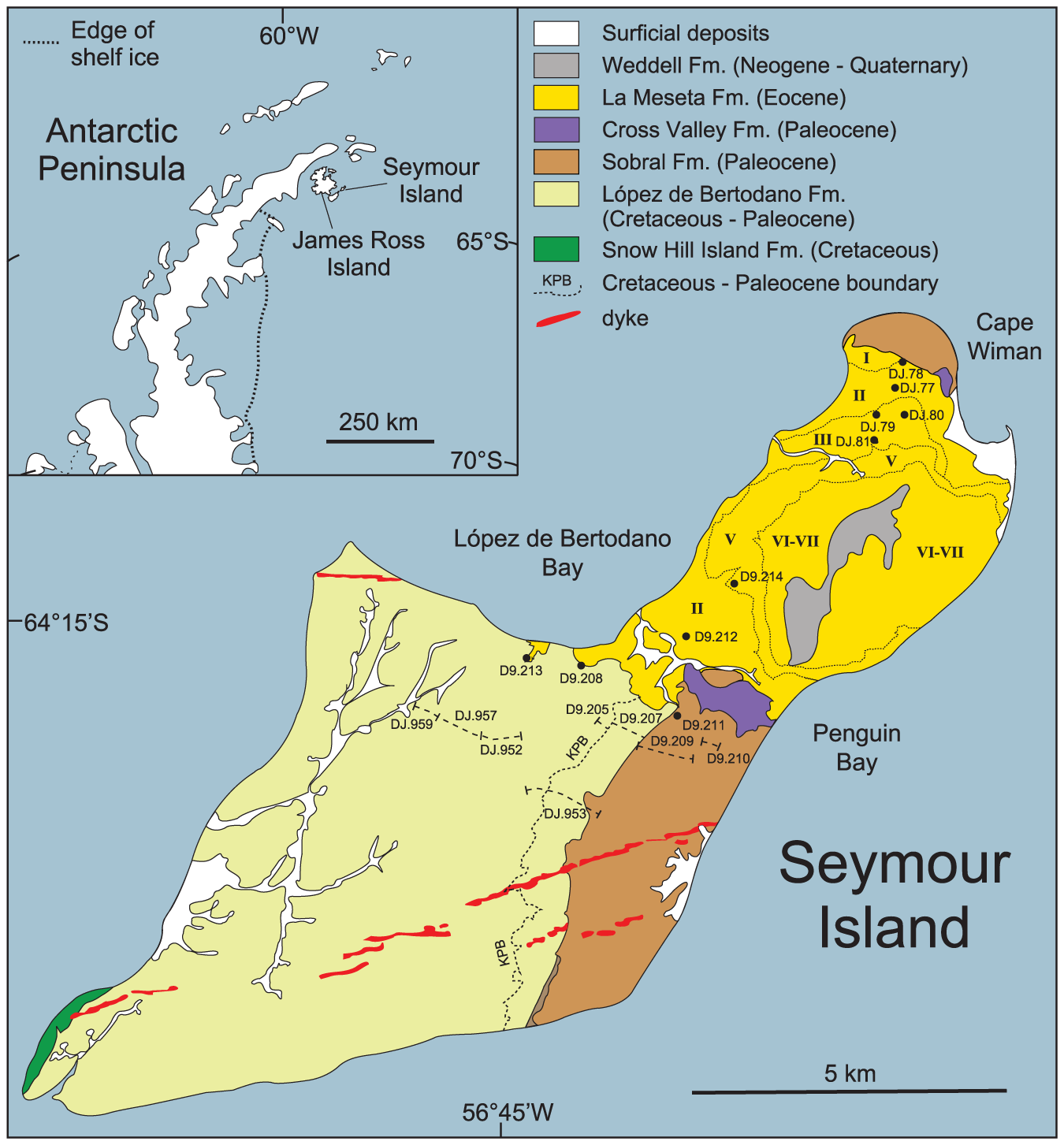 Geologic map of Seymour Island, Antarctica with: Weddell Formation La Meseta Formation Cross Valley Formation Sobral Formation López de Bertodano Formation Snow Hill Island Formation